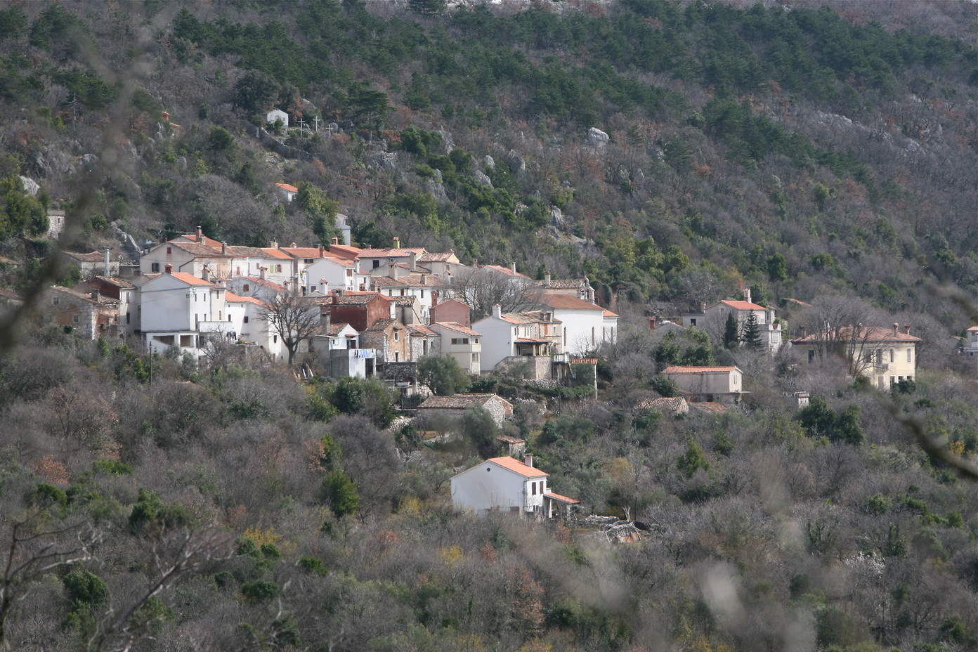 Dragozetići 14 March 2009.